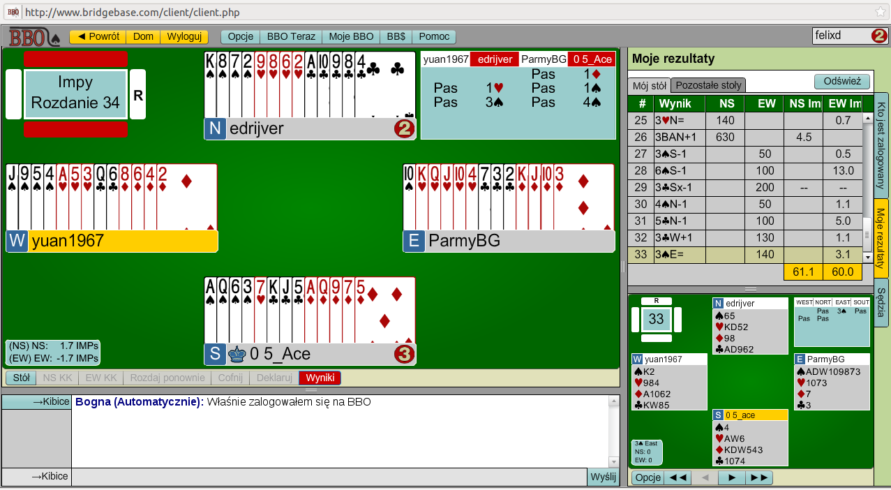 Bridge Base Online client - Flash version - kibitzer view - polish interface